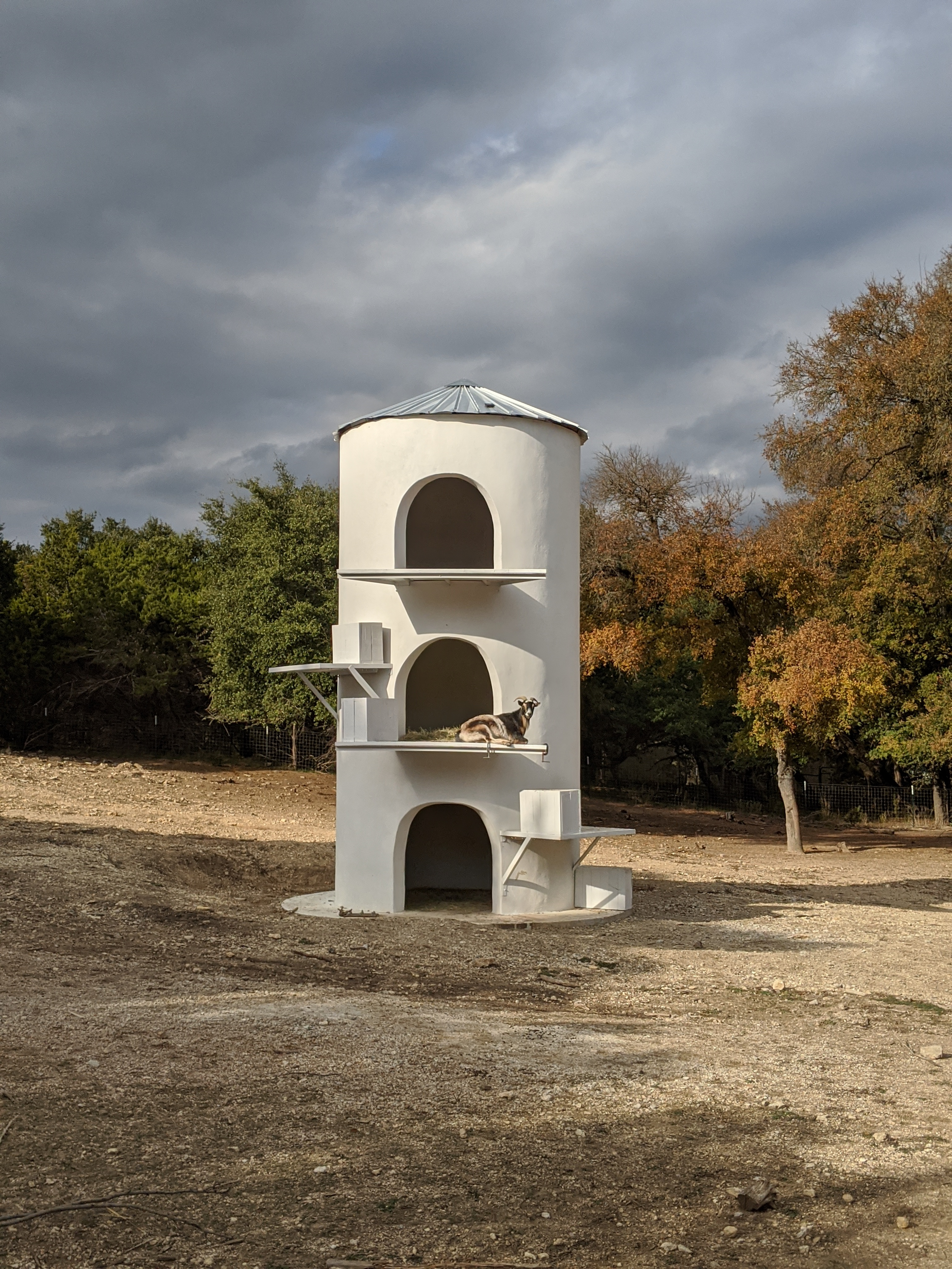 The goat tower at Henly Hills Farm in Dripping Springs, TX.